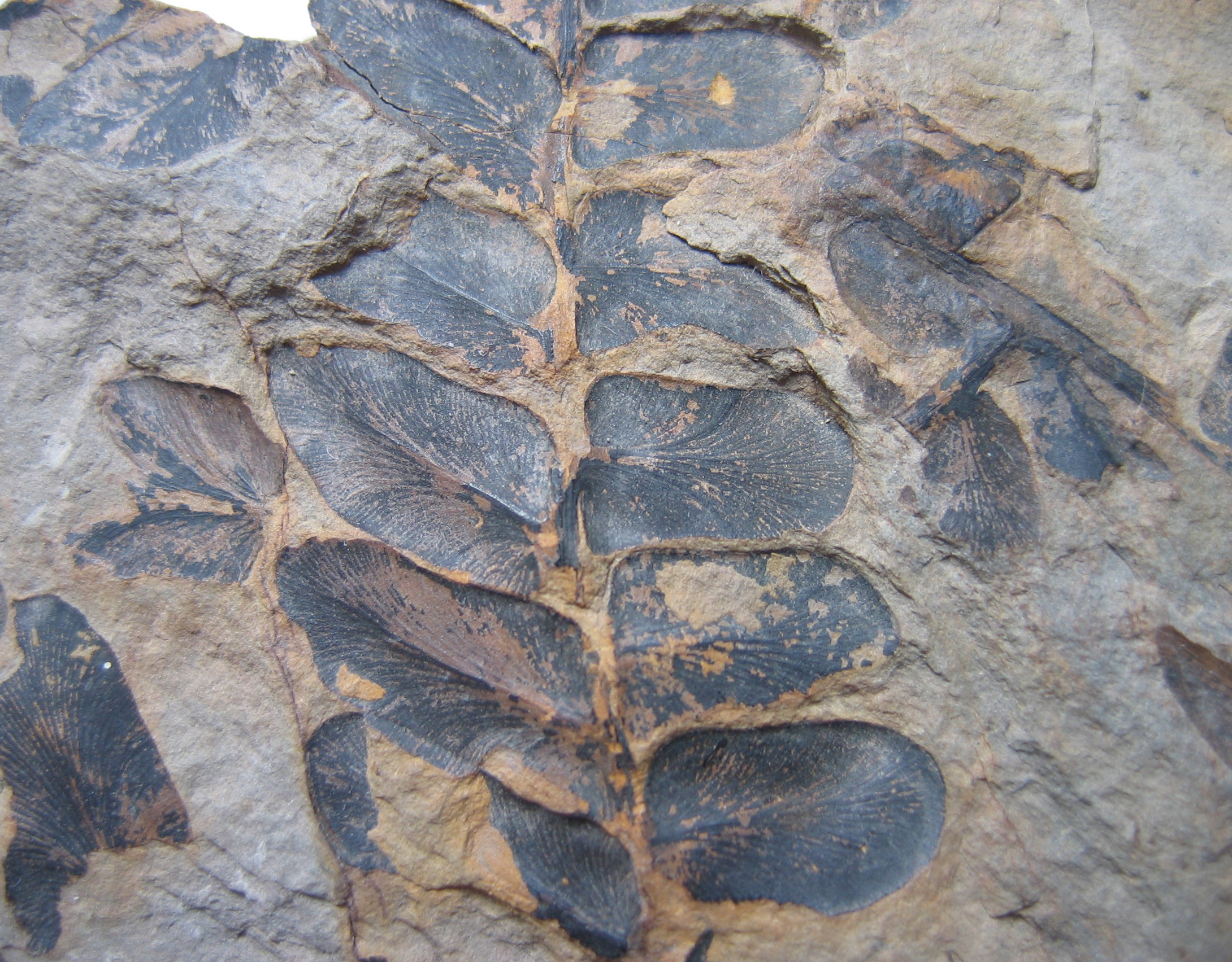 Pecopteris arborescens found in Spain.